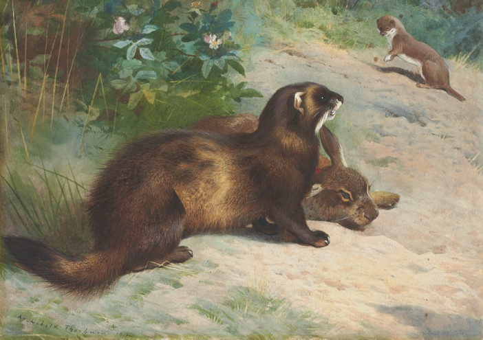 Archibald Thorburn's depiction of a European polecat defending a rabbit carcass from a least weasel